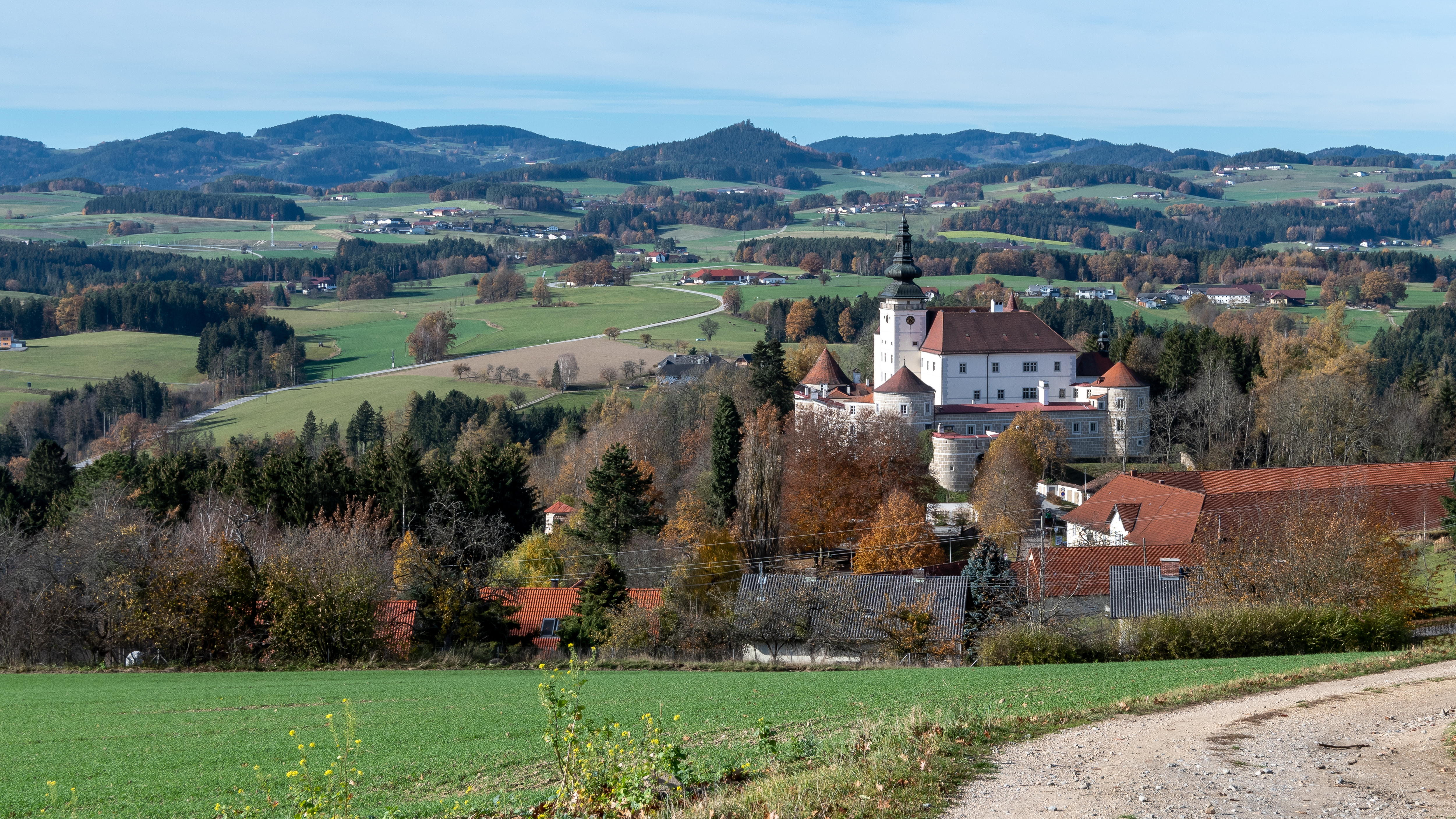 Castle Weinberg is situated on a ridge over Kefermarkt.